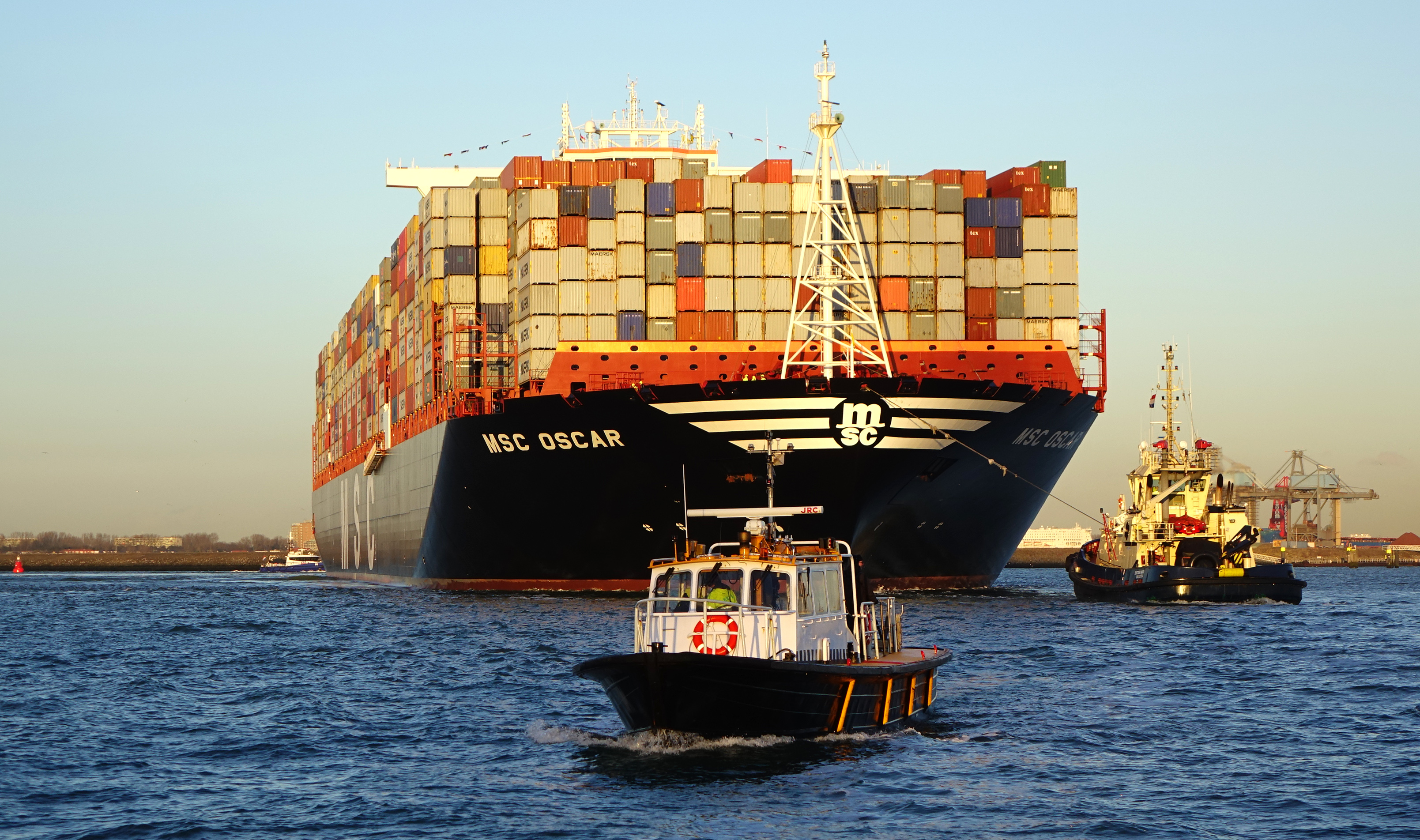 Container ship MSC Oscar, first visit in Rotterdam, 3-3-2015